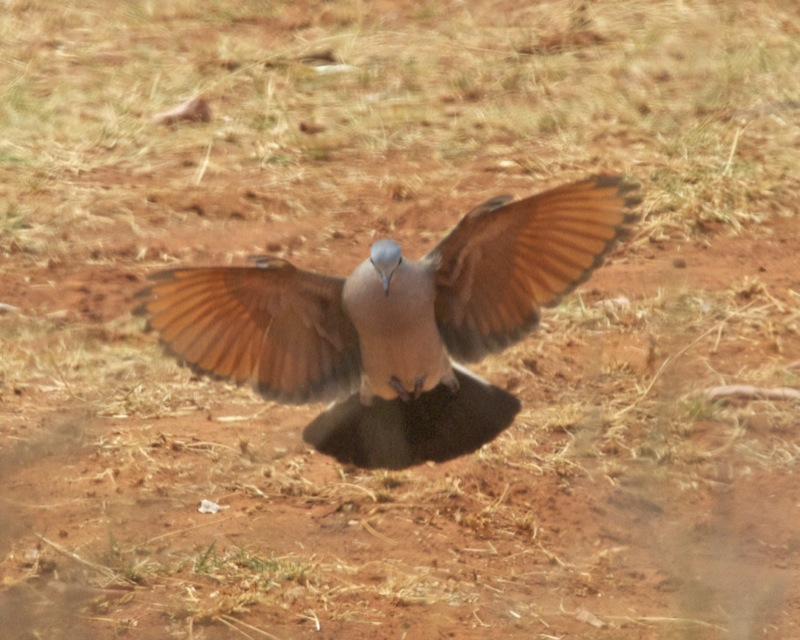 Emerald-spotted Wood Dove Turtur chalcospilos Akagera National Park, Rwanda 15th. August 2009 Distribtution